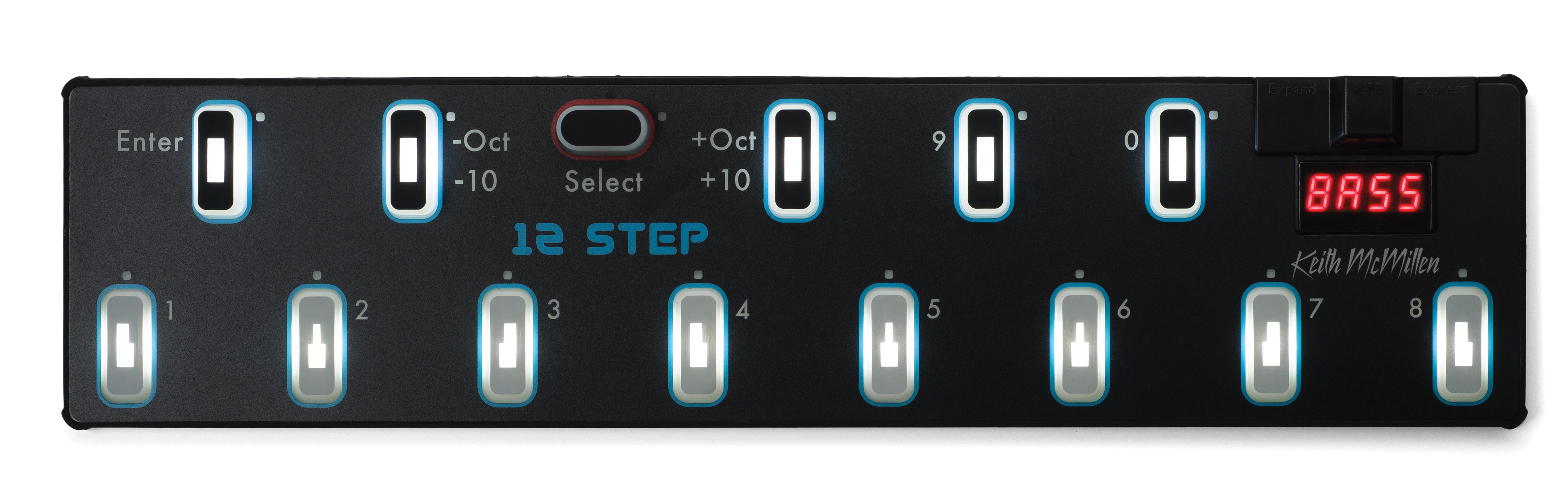 12 step MIDI foot controller includes smart fabric sensors